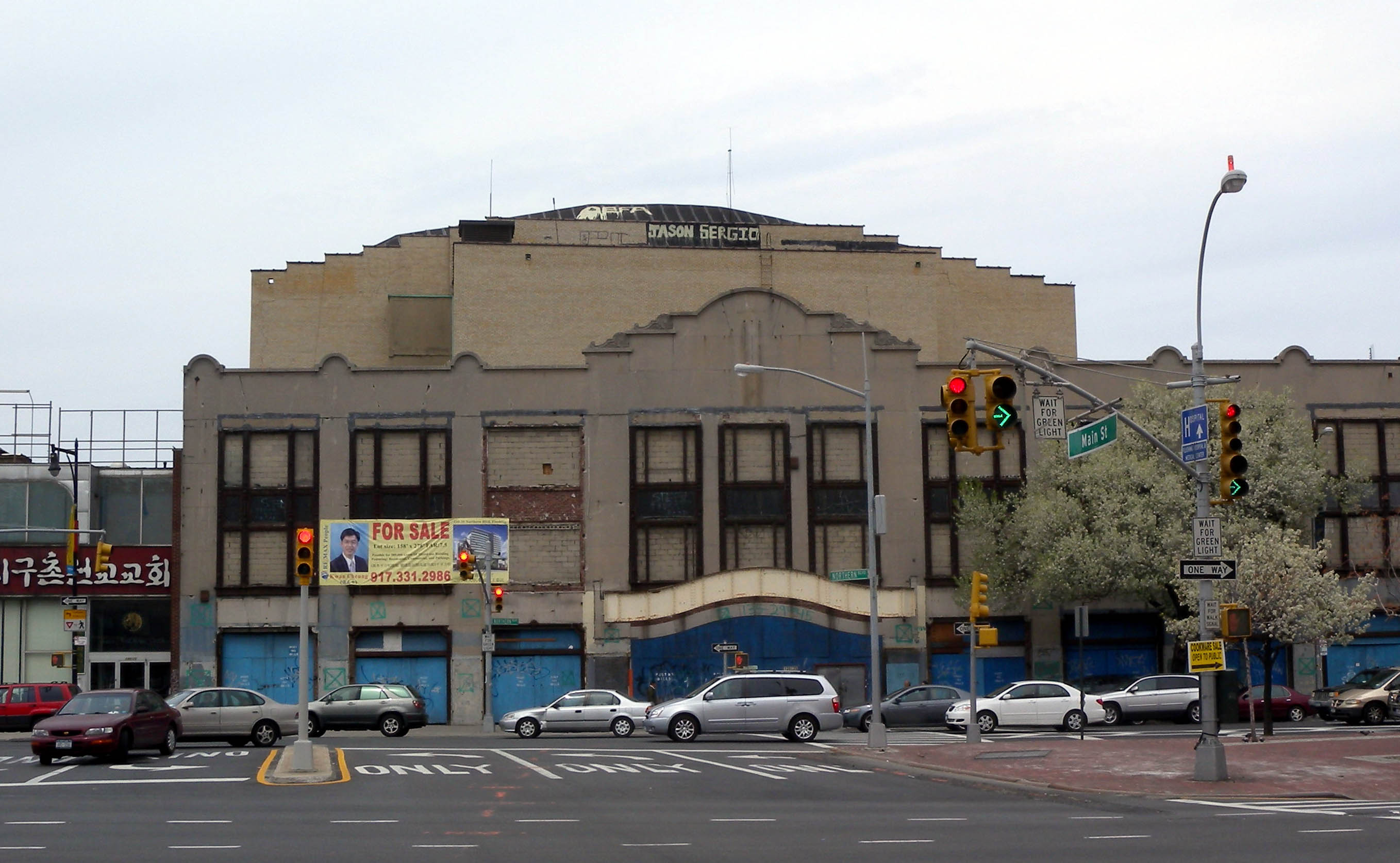 Looking north across Northern Boulevard from Main Street at Flushing RKO Keith on a cloudy midday. The interior was designated by NYCLPC in 1984.